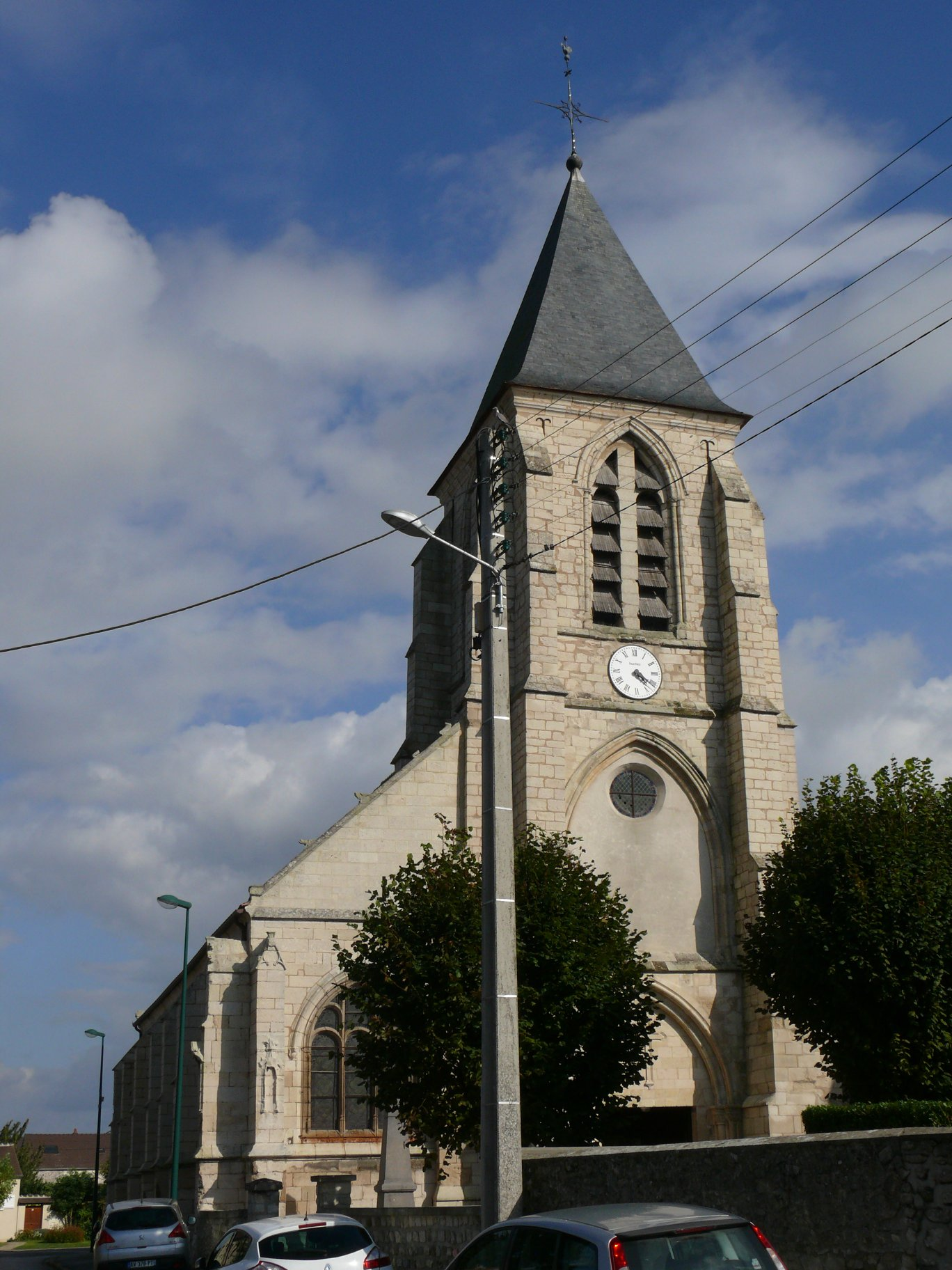 Saint-Peter-and-Paul's church of Silly-le-Long (Oise, Picardie, France).